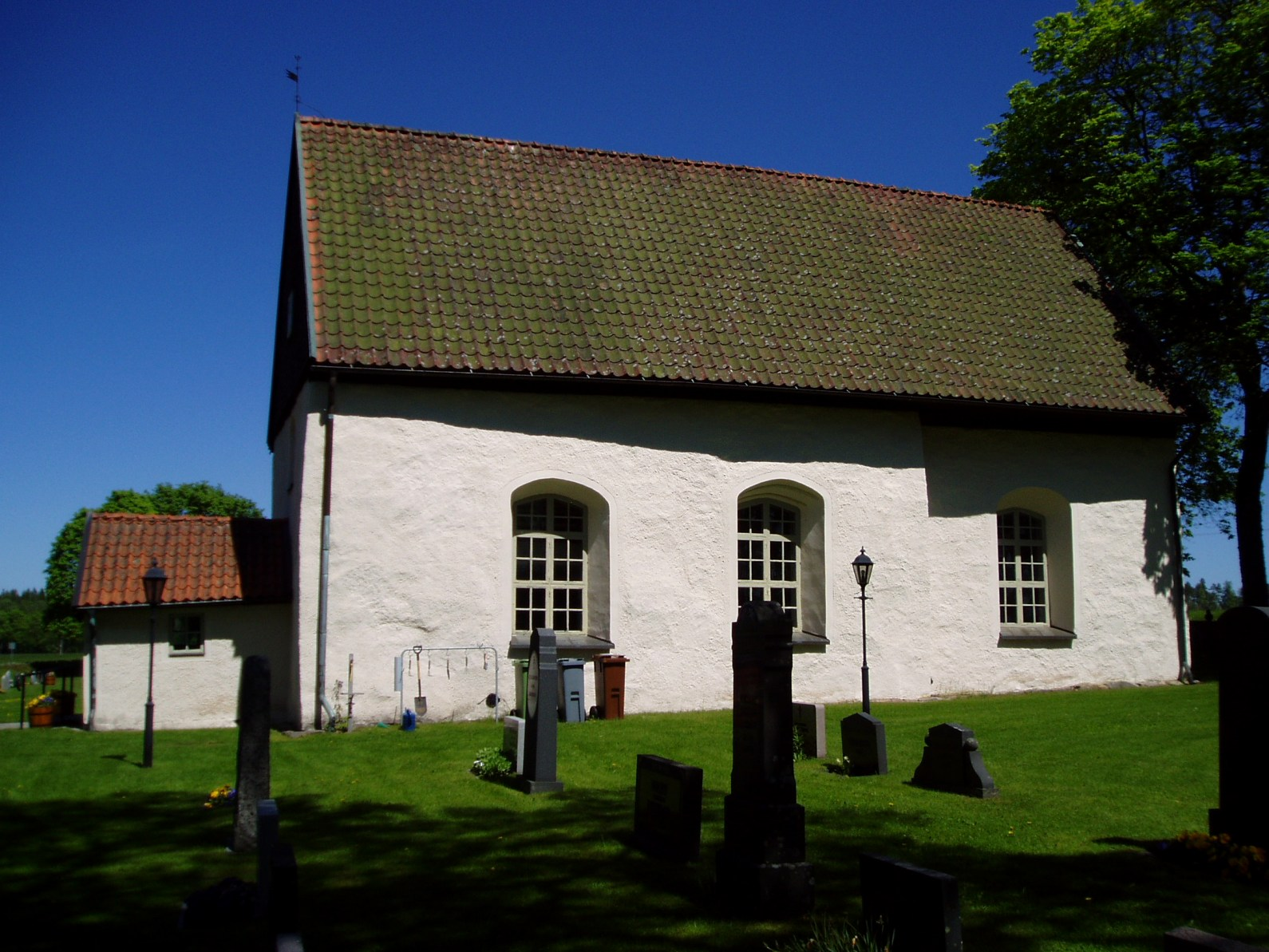 Church at Dörarp, Småland, Sweden